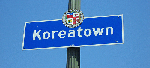 City of Los Angeles, Koreatown neighborhood sign